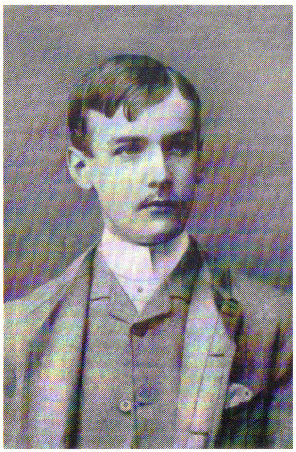 Count Harry Kessler as a student, 1888